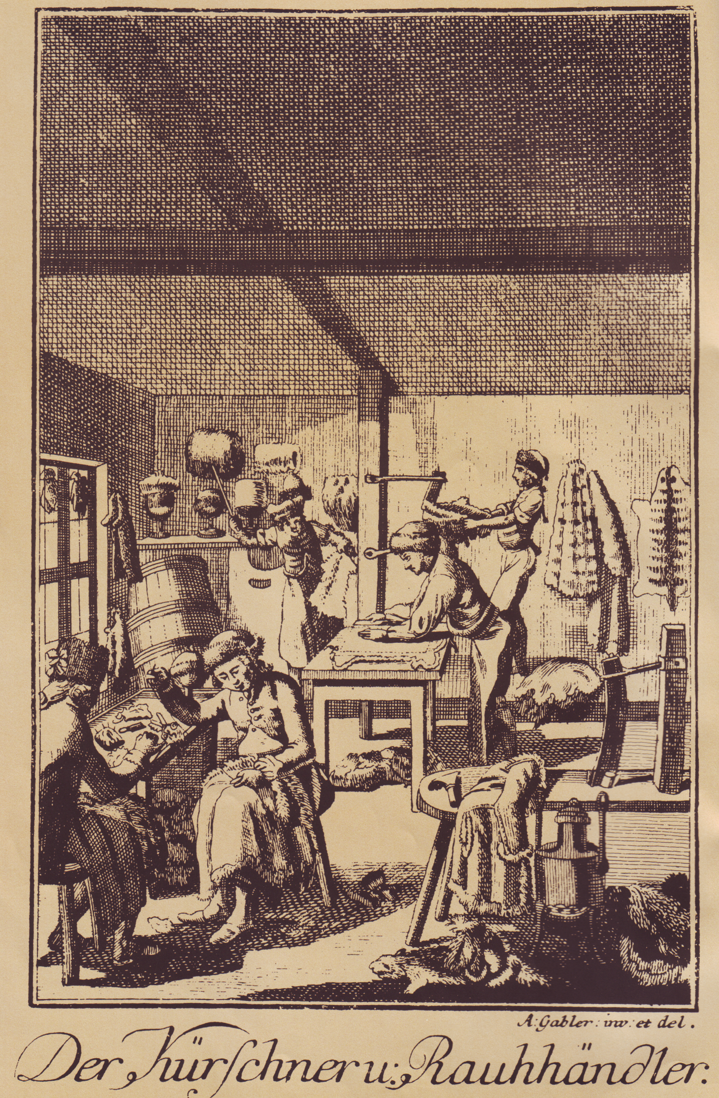 Furrier's shop